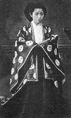 Naruko Yanagiwara (1859–1943)